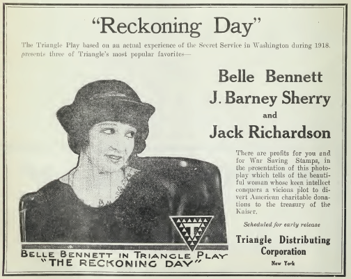 Advertisement for the American drama film The Reckoning Day (1918) with Belle Bennett, directed by Harry Clements.